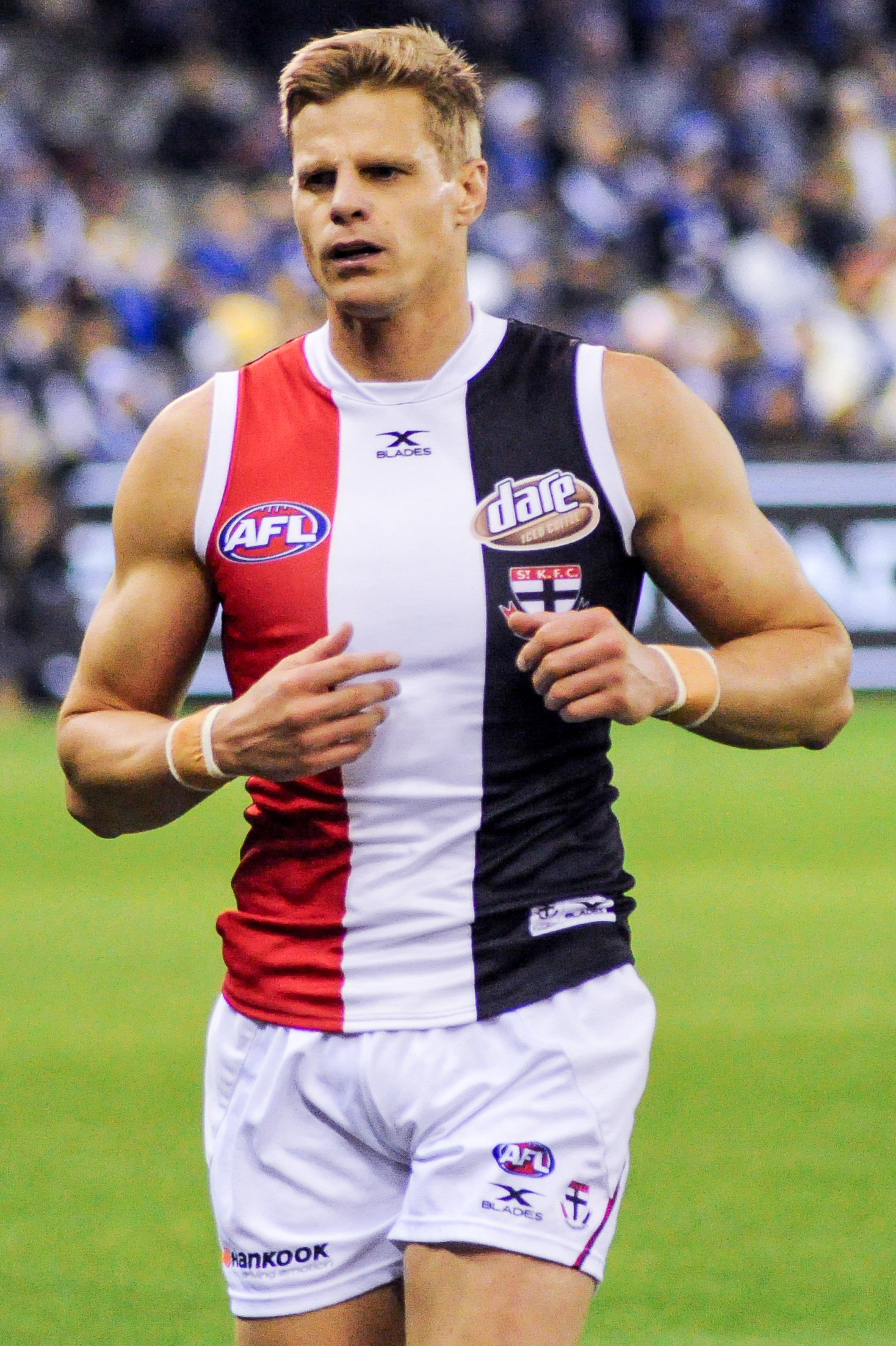 Nick Riewoldt during the AFL round thirteen match between North Melbourne and St Kilda on 16 June 2017 at Etihad Stadium in Melbourne, Victoria.